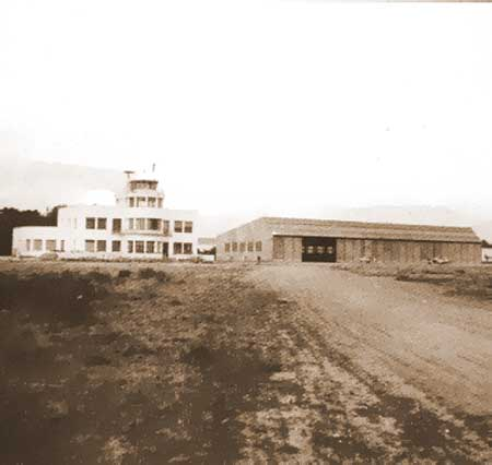 La Rabassa Aerodrome (Alicante Airport)